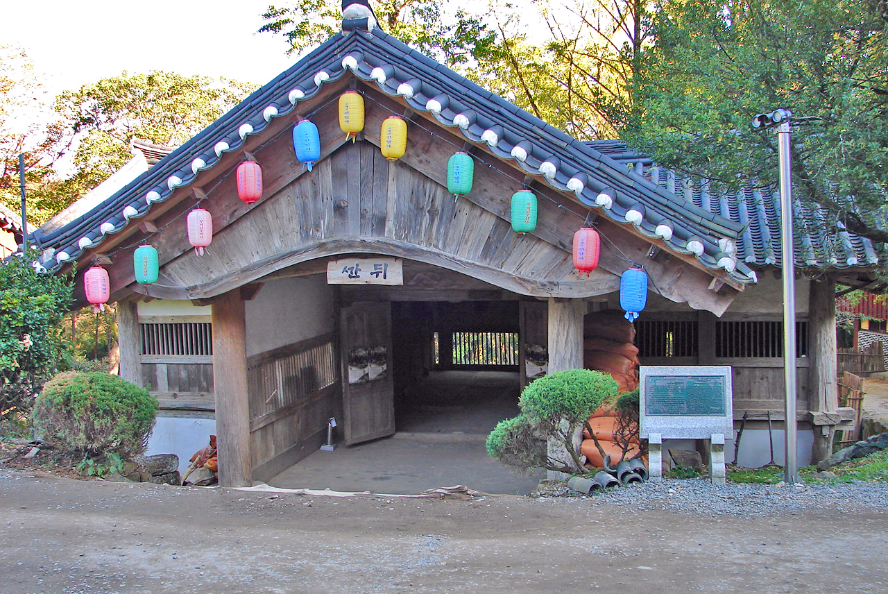 The Lavatory at Seonamsa is a rectangular wood building with an open entrance on the north side, built on elevated ground. One side is for male use and the other side is for female use. This wooden structure has ventilation lattices set high in the walls. Although it is a typical outdoor toilet, it is well kept and devoid of the usual odor. At the entrance of the lavatory, there is a stone basin for hand washing. There is no documentation indicating the origin of Seonamsa's Lavatory, but it is thought to have existed since before the Jeongyujaeran War in 1597. The Lavatory at Seonamsa has been designated as a Cultural Property Material #214, the first time a toilet has been recognized as an asset